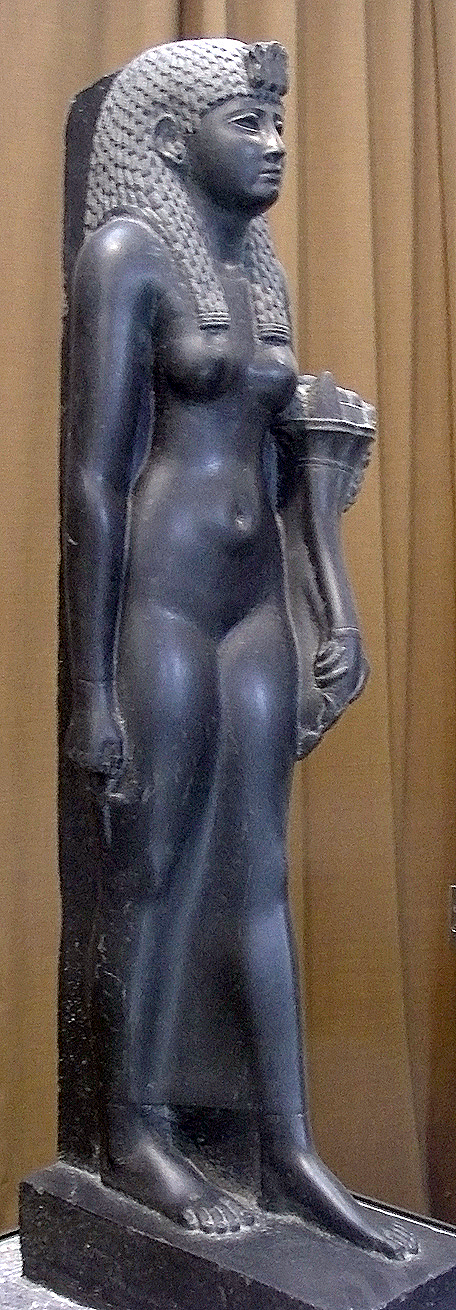 Statue of queen Cleopatra VII. Basalt, second half of the first century BC. Hermitage, Saint Petersburg